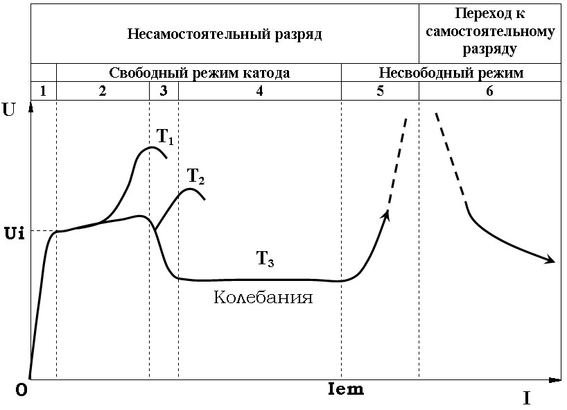 Current voltage characteristic of arc discharge with hot cathode